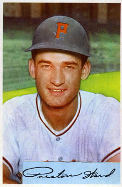 1954 Bowman baseball card of Preston Ward of the Pittsburgh Pirates #139. PD-not-renewed.